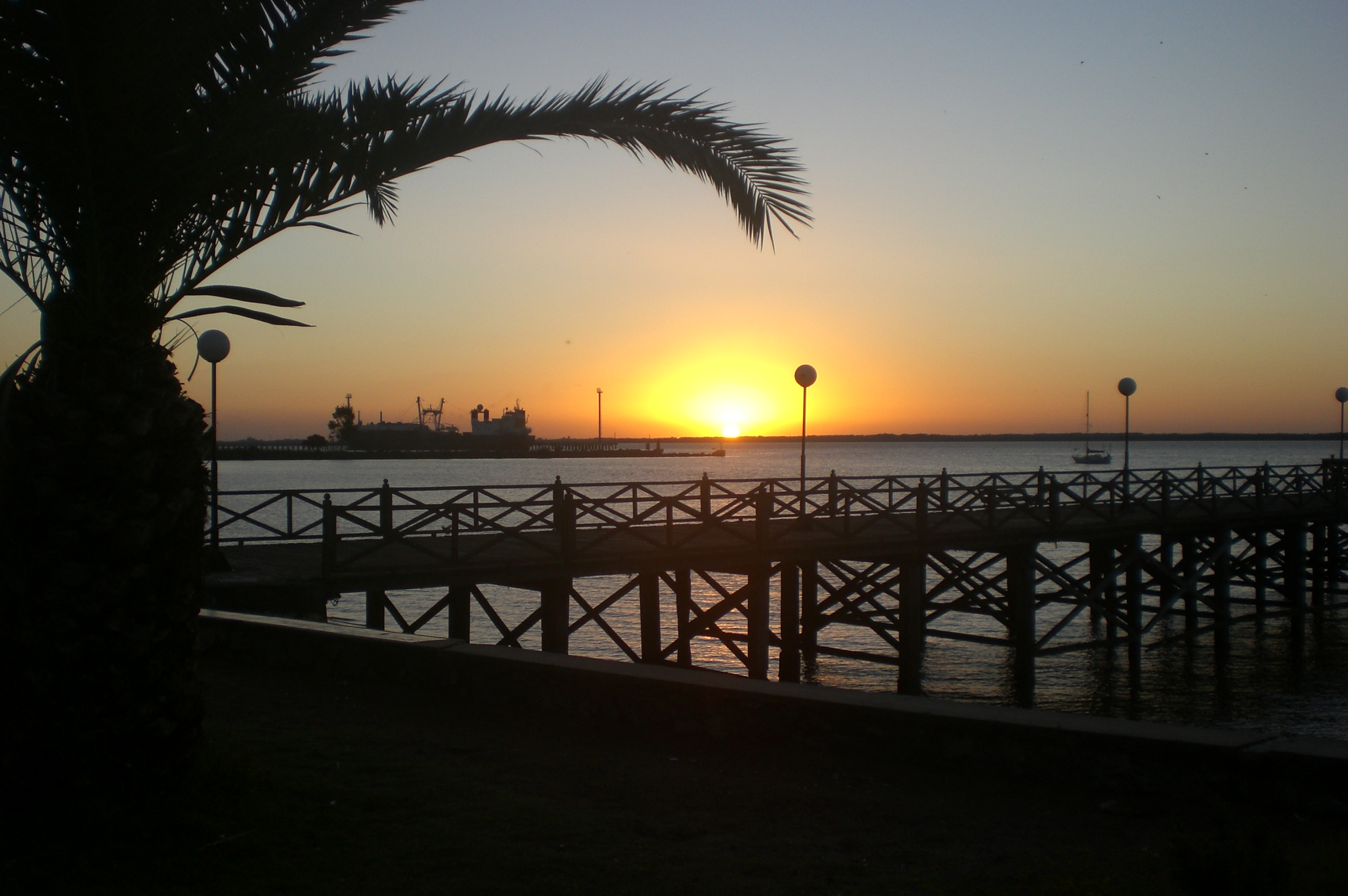 Sunset on Pier Nueva Palmira (the River Plate)